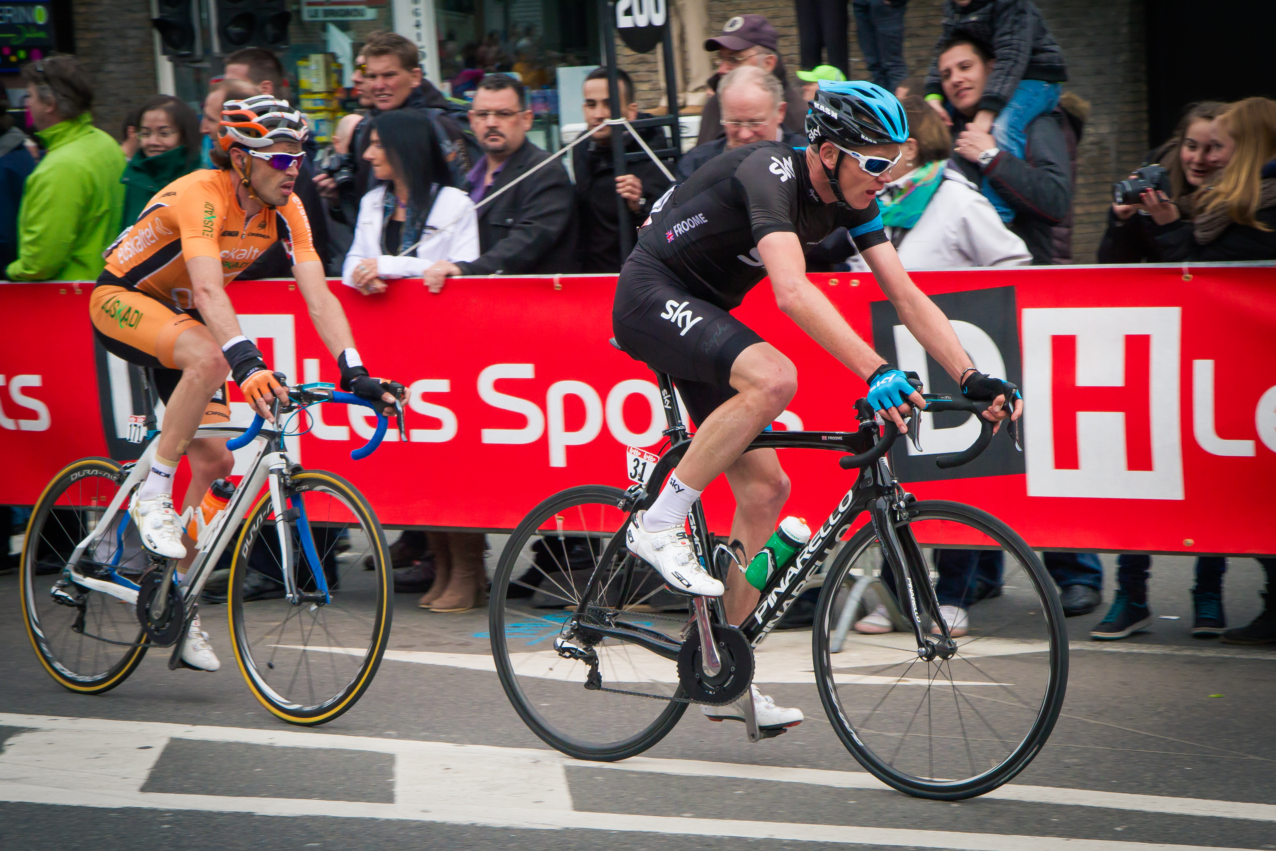 Samuel Sanchez of Euskaltel-Euskadi and Chris Froome of Sky Procycling. Liege-Bastogne-Liege race, 2013